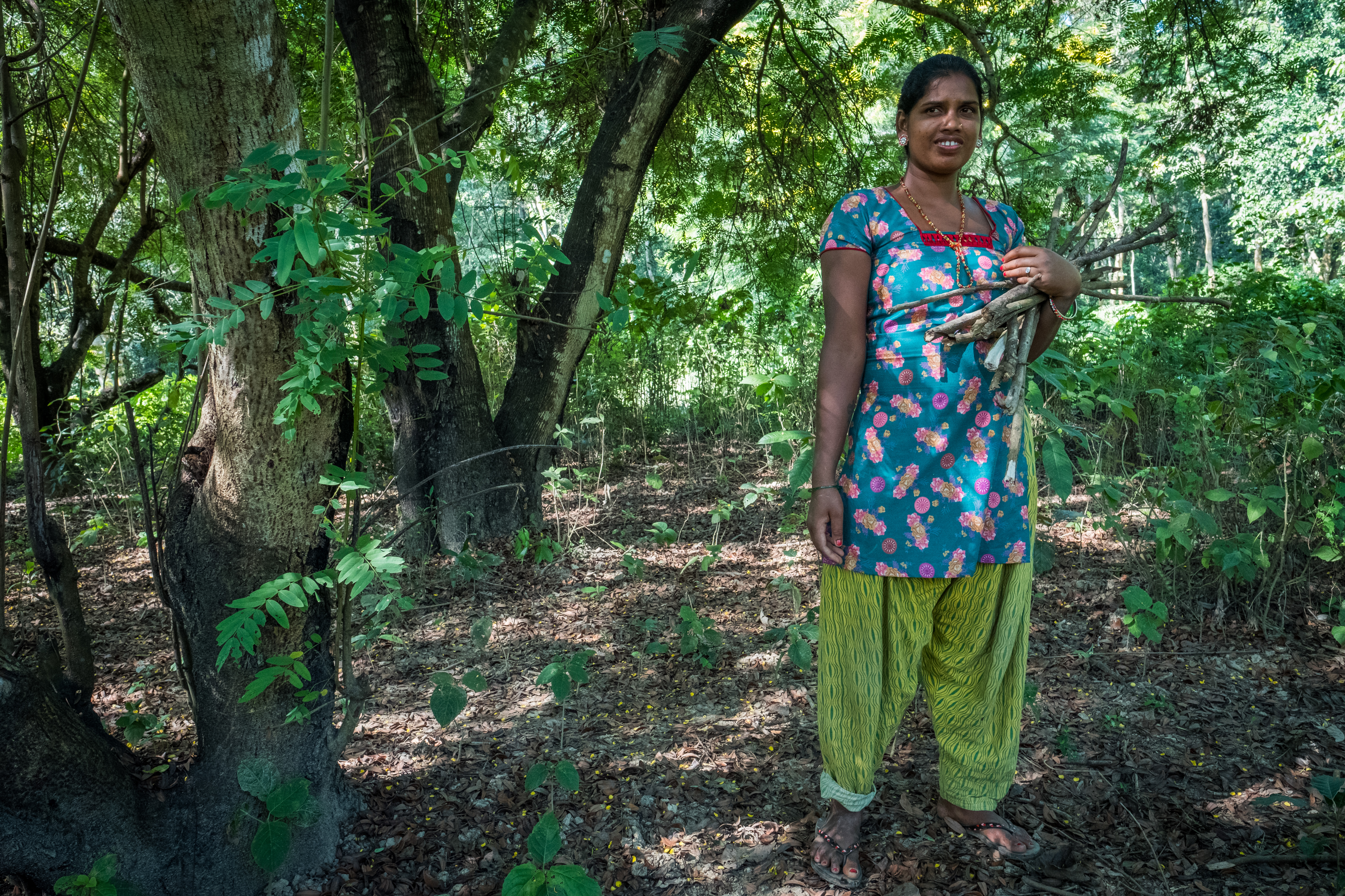 November 2017. The Musahar, a socially marginalized and poor community that relies closely on the forest for subsistence, are allowed to collect fuel wood for personal use each Wednesday in the Bagmara Buffer Zone. Sauraha, Chitwan District, Nepal. Photograph by Jason Houston for USAID